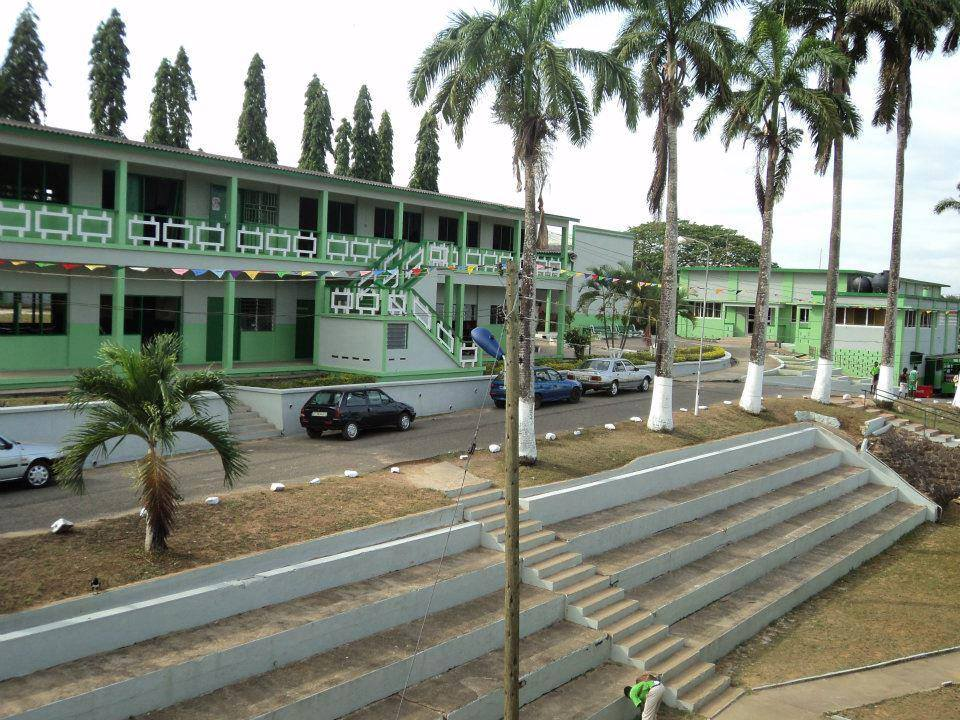 Amphitheatre and General Arts Block